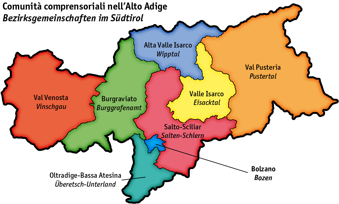 Districts of South Tyrol (Italy).